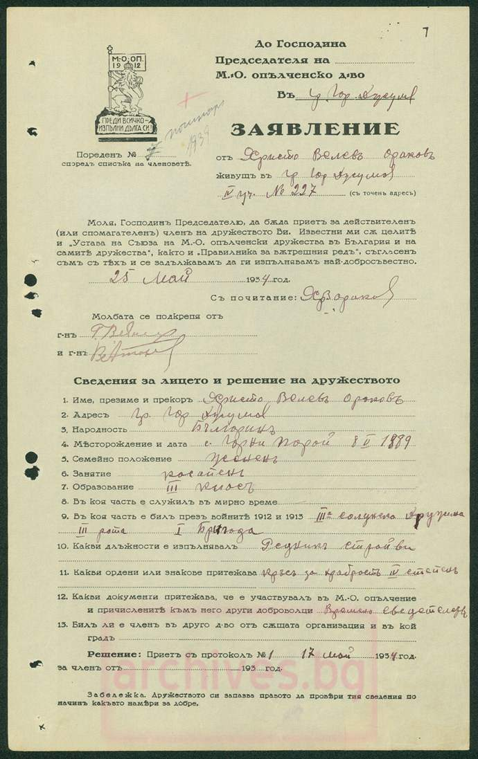 Hristo_Velev Document